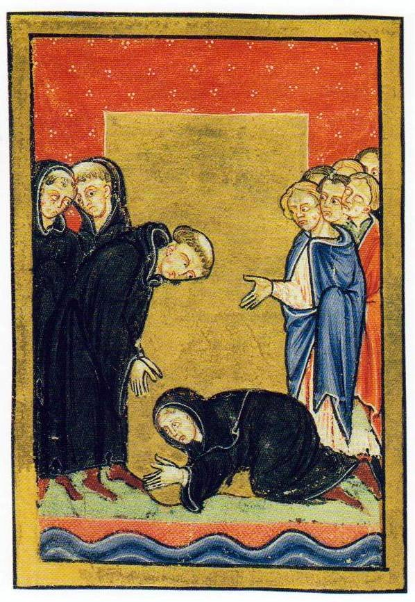 A miniature in the British Library Yates Thomson MS 26, with Saint Cuthbert meeting Ælfflaed, sister of the king, at Coquet Island